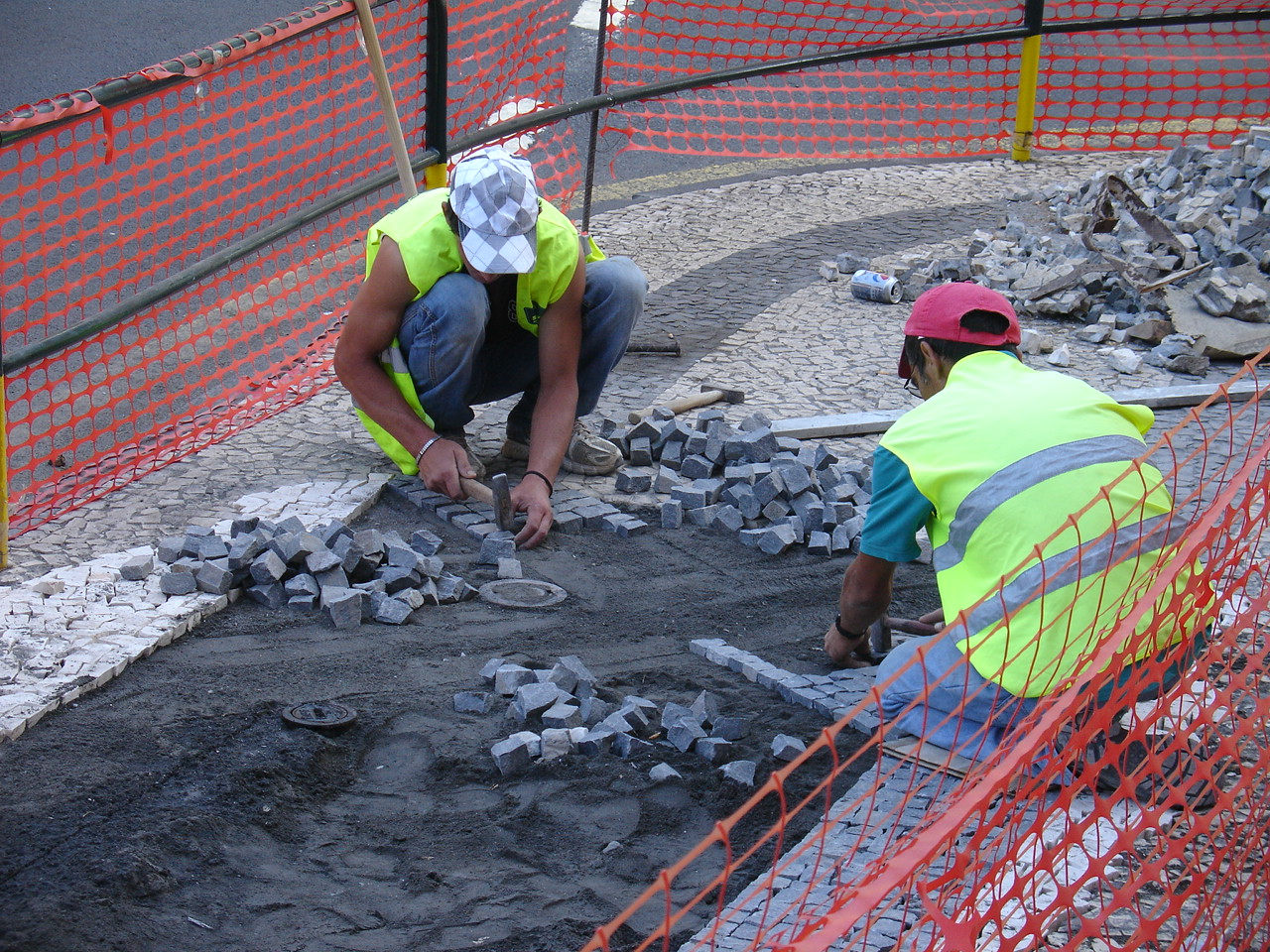 The stones are carefully laid out, one by one. The surface is hardened, and then covered with a dry cement-based mixture. Hammers are used to level the stones to required level of surface. If a pattern of different colour stones is required then the stones are placed according to required "edges" of the pattern. Madeira, Portugal